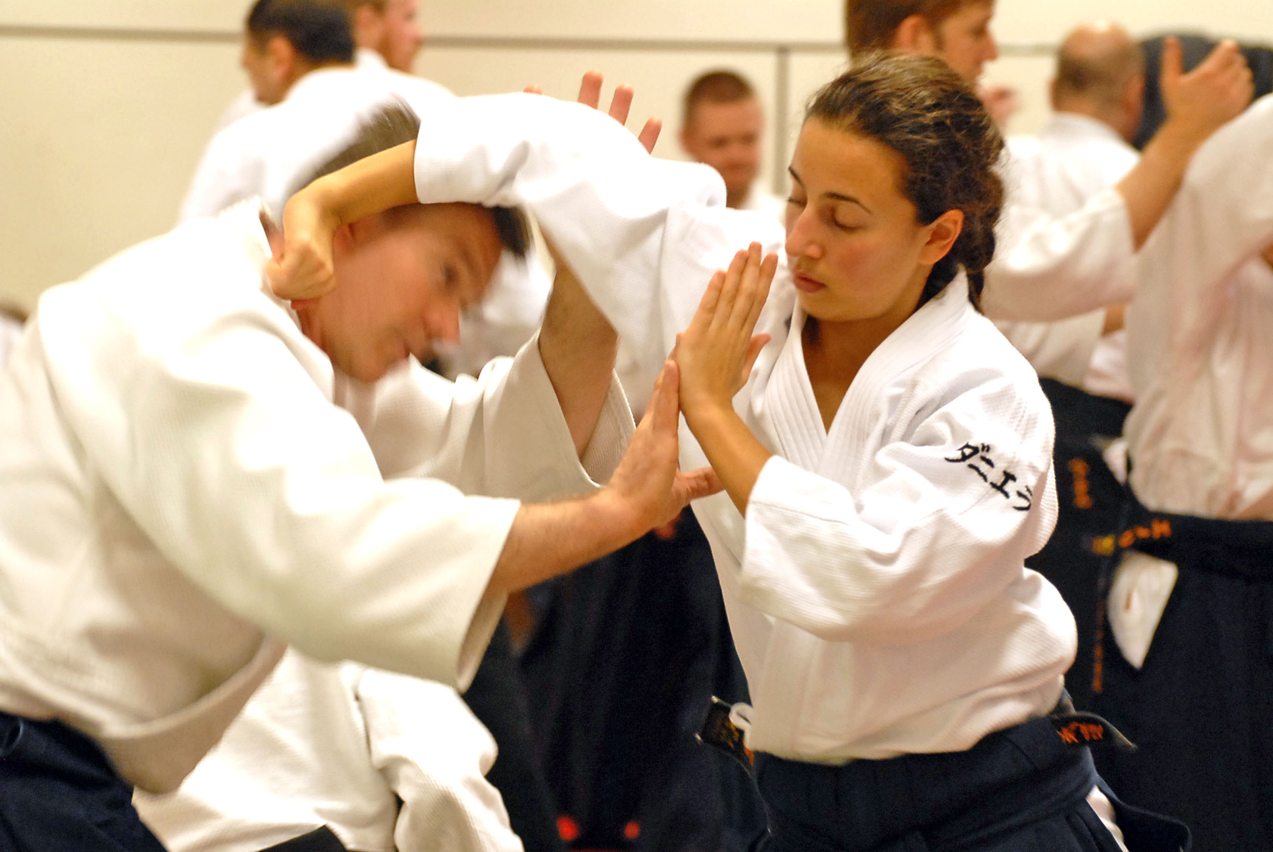 Swedish aikido practitioners.